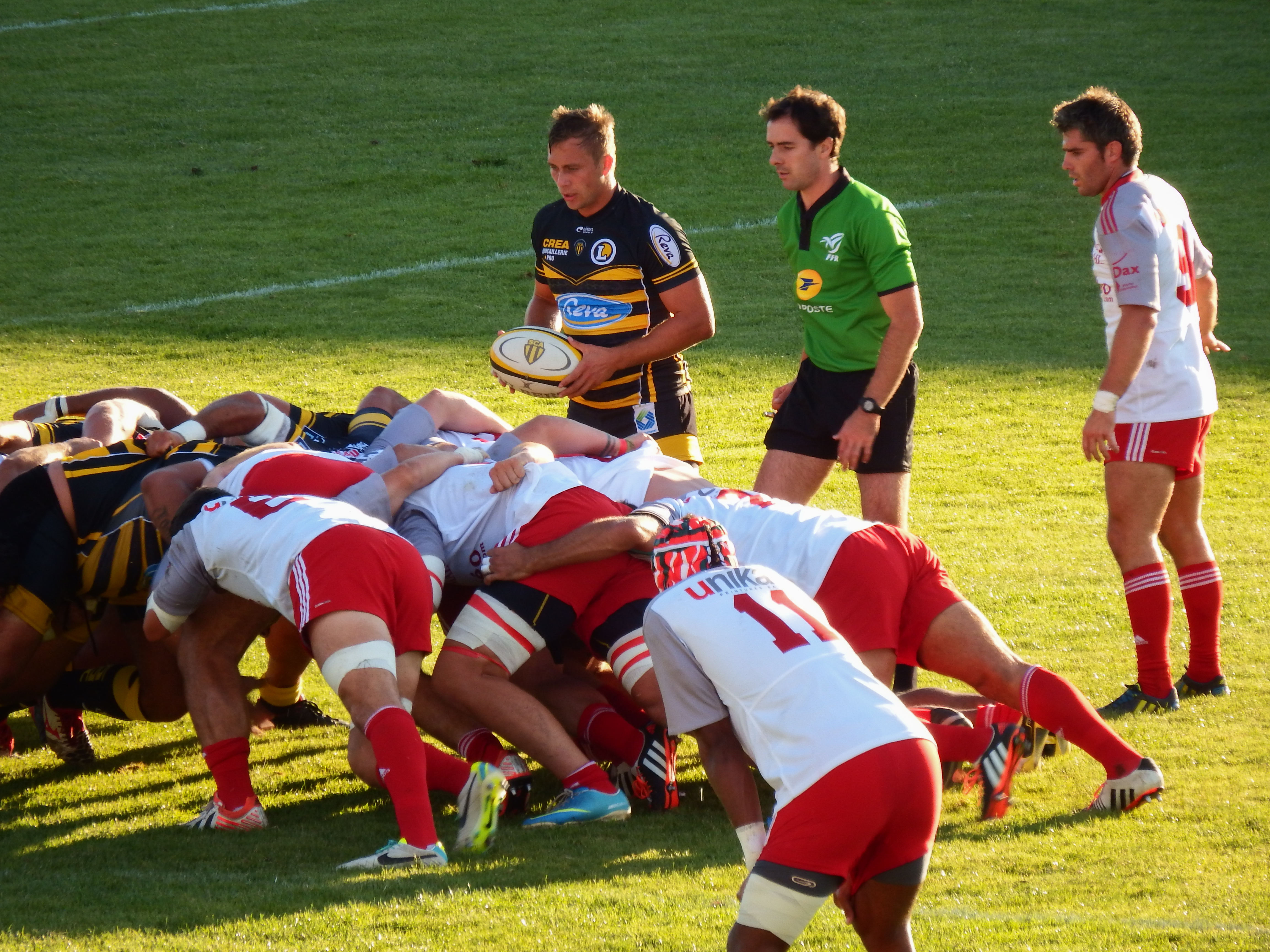 Pro D2 2014-2015 — 13 September 2014, stadium municipal d'Albi. Match between: SC Albi — US Dax